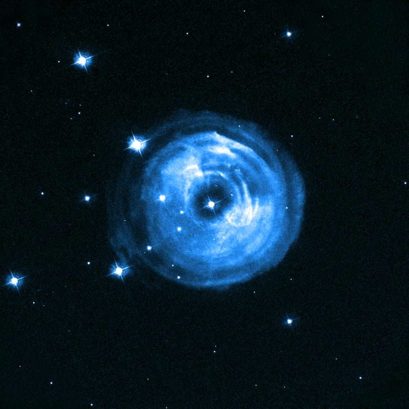 Light echo around the Star V838 Monocerotis.